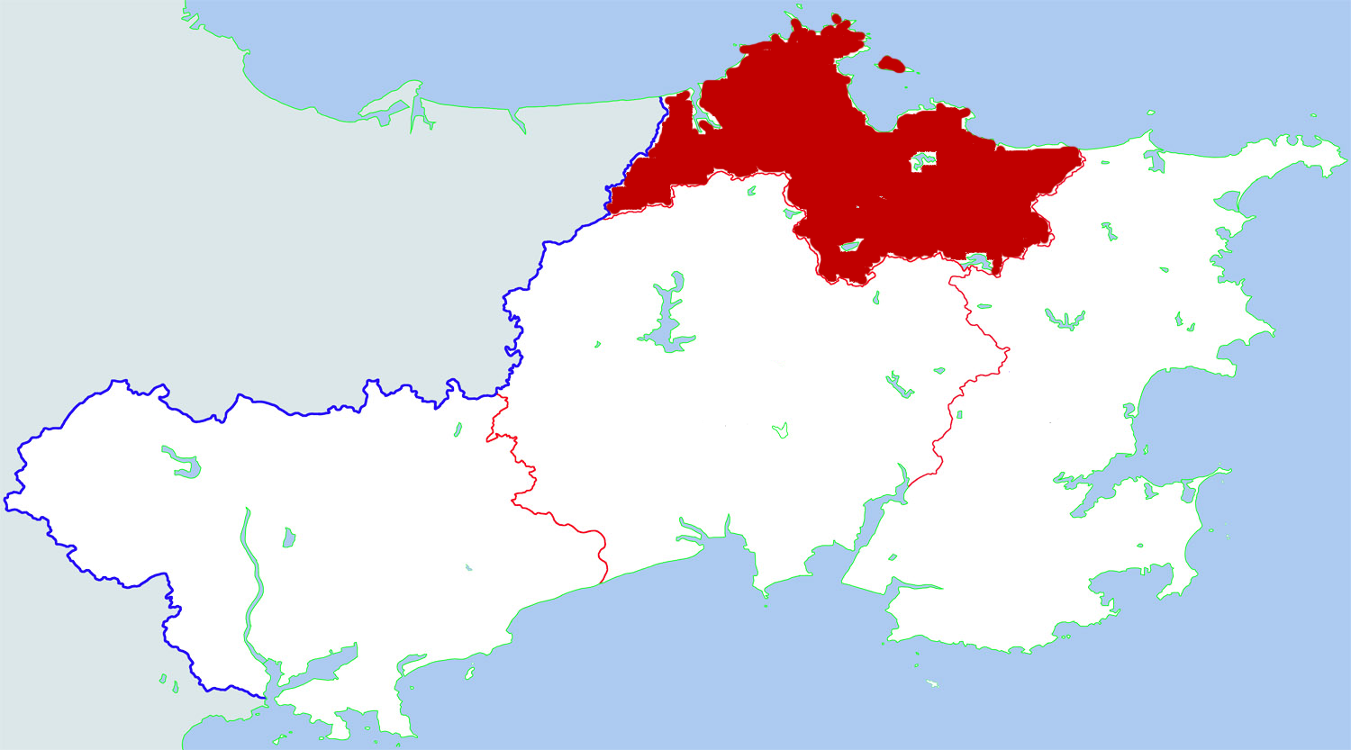 Location of Huancui district in Weihai City, China